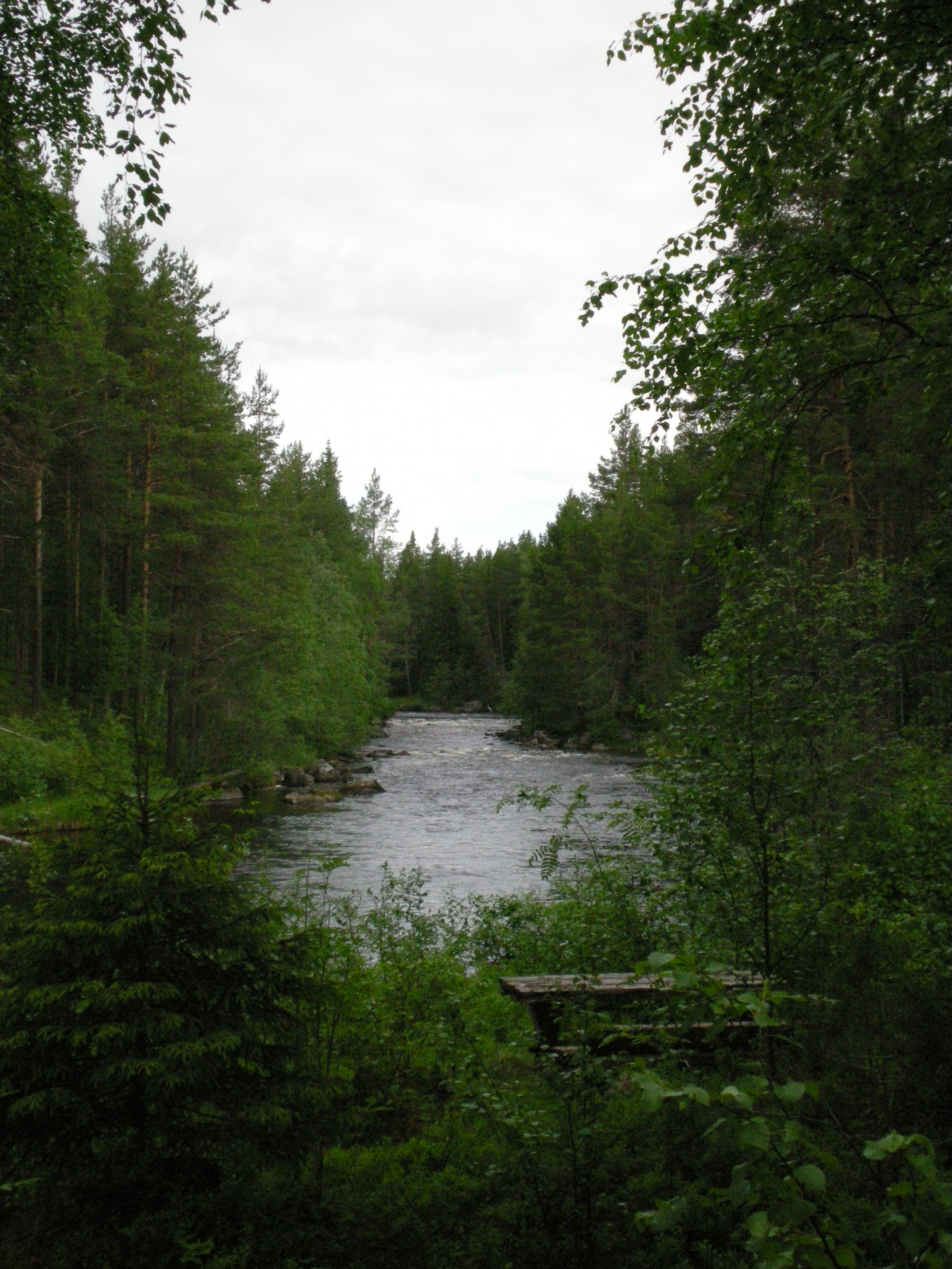 Åman, Åmsele, Sweden